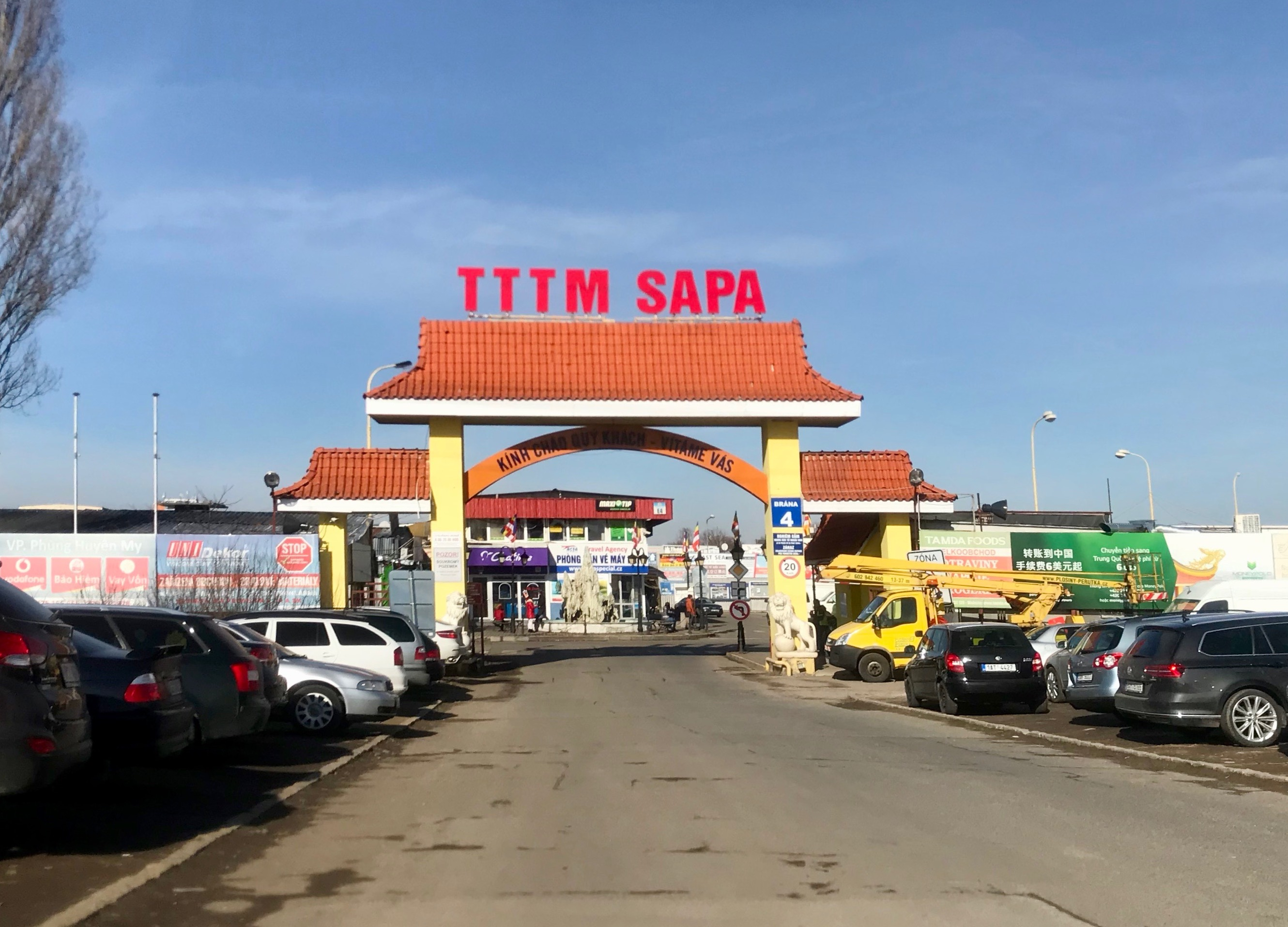 Gate of TTTM Sapa, Vietnamese market place in south Prague